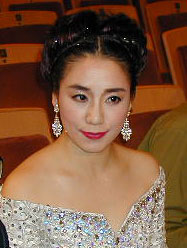 Photograph of Chon Wolson.